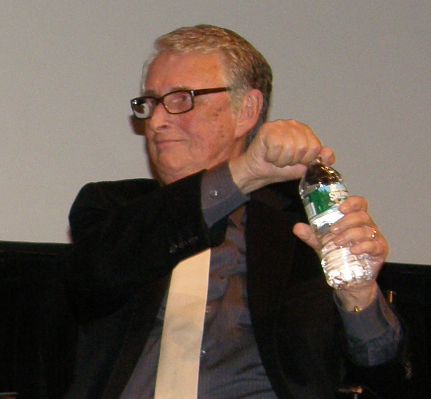 Film Society of Lincoln Center's Retrospective; Q&A after screening of FUNNY FACE.